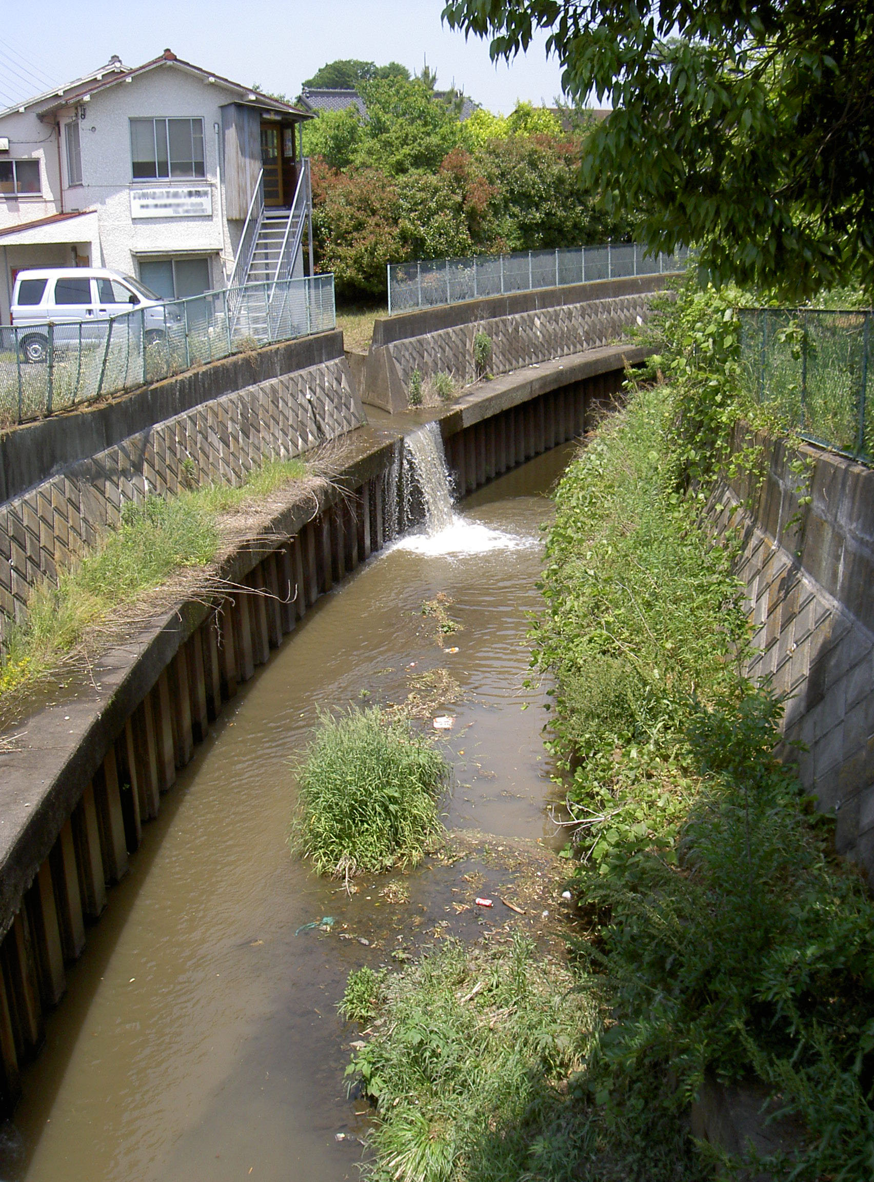 Hatogawa river, between Sagamihara city and Zama city, Kanagawa prefecture, Japan. ja: 相模原市と座間市の境界を流れる鳩川